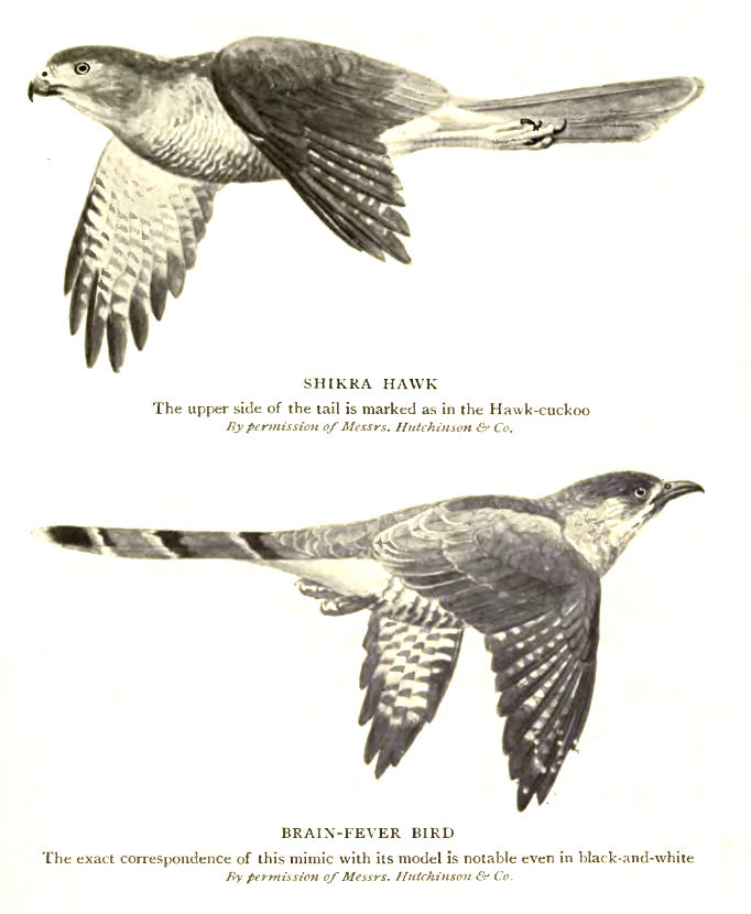 Mimicry among birds, Shikra Accipiter badius and Hierococcyx varius